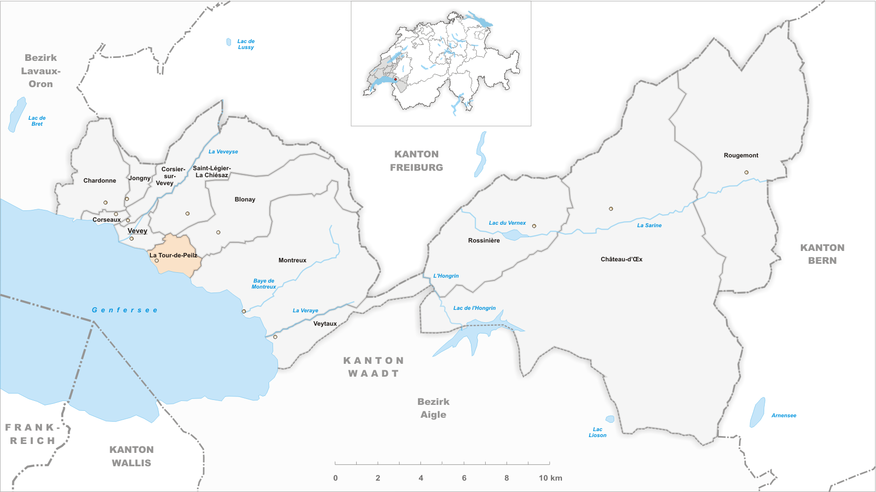 Municipality La Tour-de-Peilz